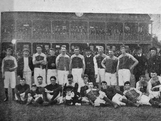 Carlton FC after winning the Grand Final v South Melbourne.